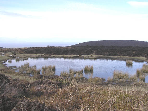 Wilmot's Pool, Quantock Hills. Wilmot's Pool looking NE towards Dowsborough Hill Fort. Just to the left of Dowsborough can just be made out the island of Steepholm in the Bristol Channel